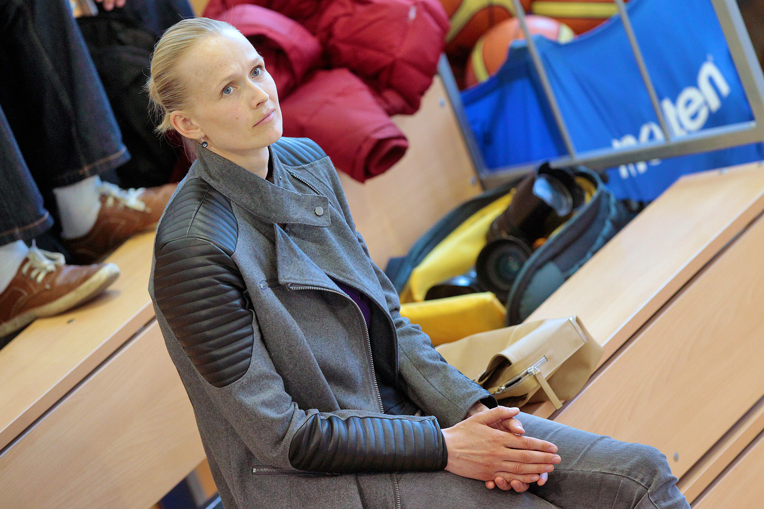 Basketball player Kristina Vengryte